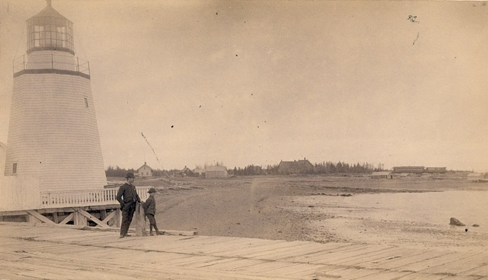 Lighthouse, St. Andrews, New Brunswick, Canada. Albumen print mounted on card.